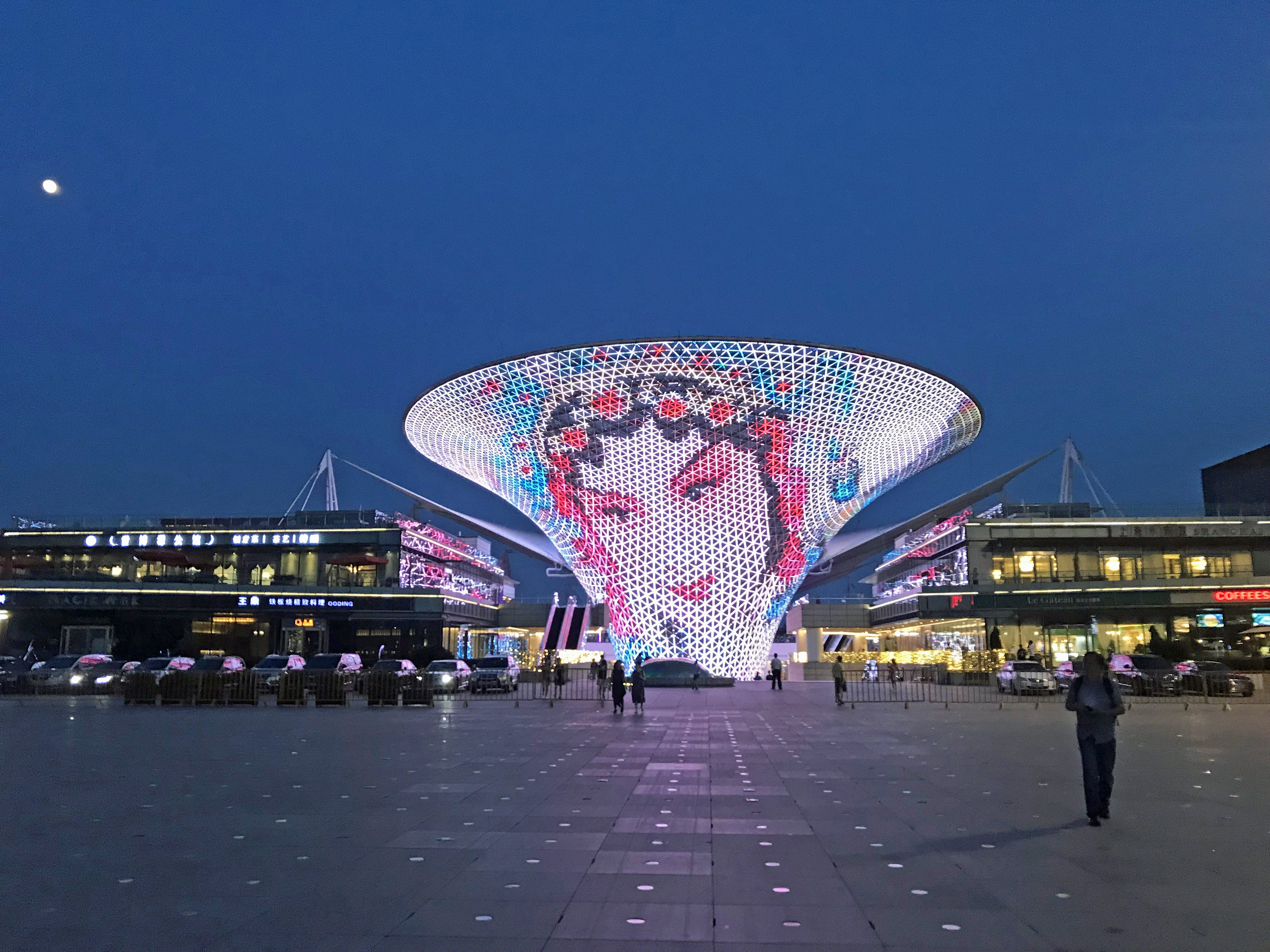 Shanghai Expo Axis You're welcome to use this picture free of charge, as long as you follow the license terms. As a matter of courtesy a link (dofollow links are welcome!) to is much appreciated. Thank you! ————————–—–—–—–—–—–—–—–—–—–—–—–—–—–—– Du kannst dieses Bild gemäß der Lizenzbestimmungen unentgeltlich nutzen. Über eine Verlinkung (dofollow am liebsten) auf freuen wir uns. Danke!